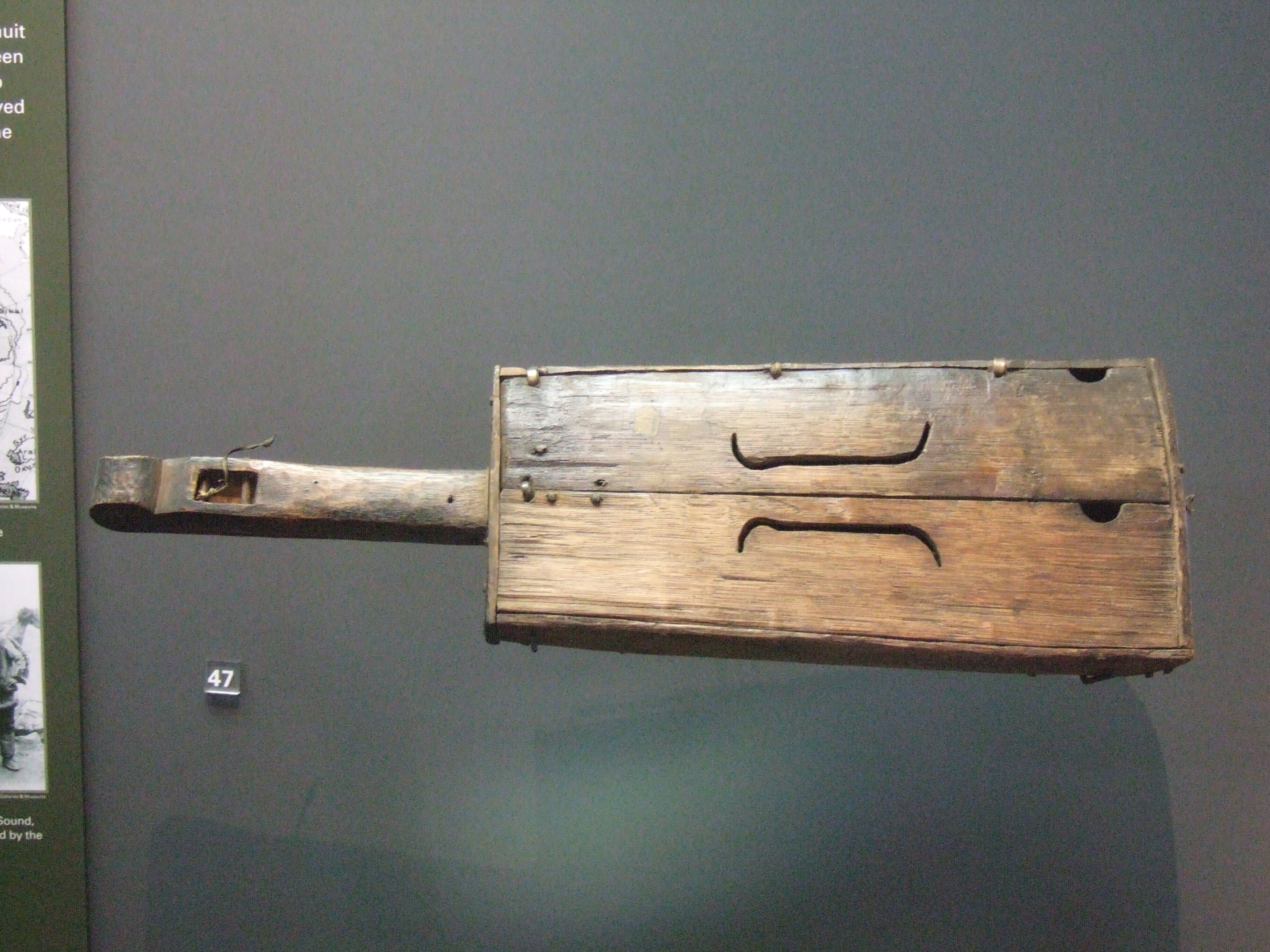 Inuit fiddle (Tautirut) or Agiarut, in the collection of the McManus Galleries, Dundee, Scotland. From Alaska, Donated in 1874.